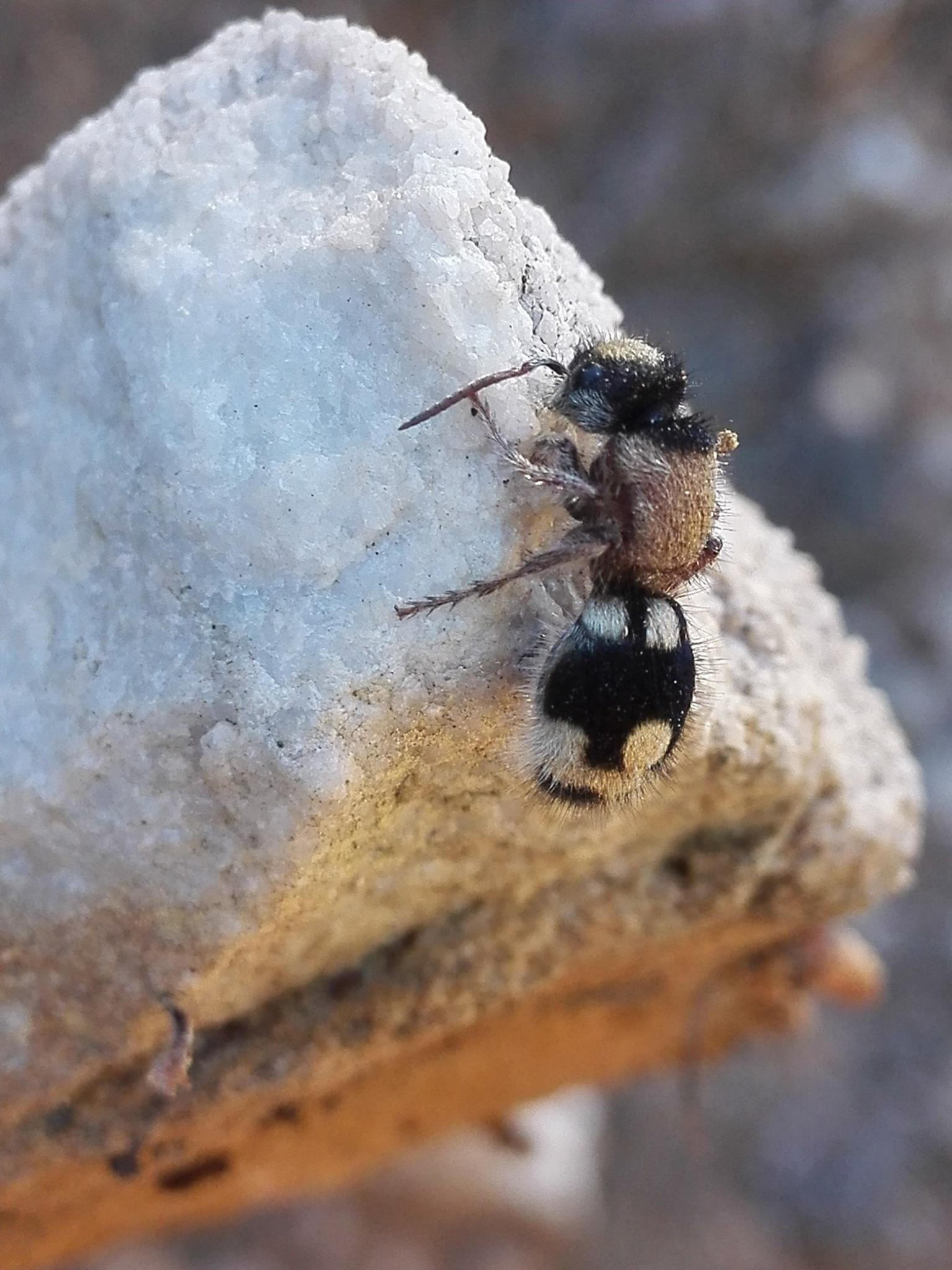 Female of Ronisia ghilianii, Cádiz, Spain.